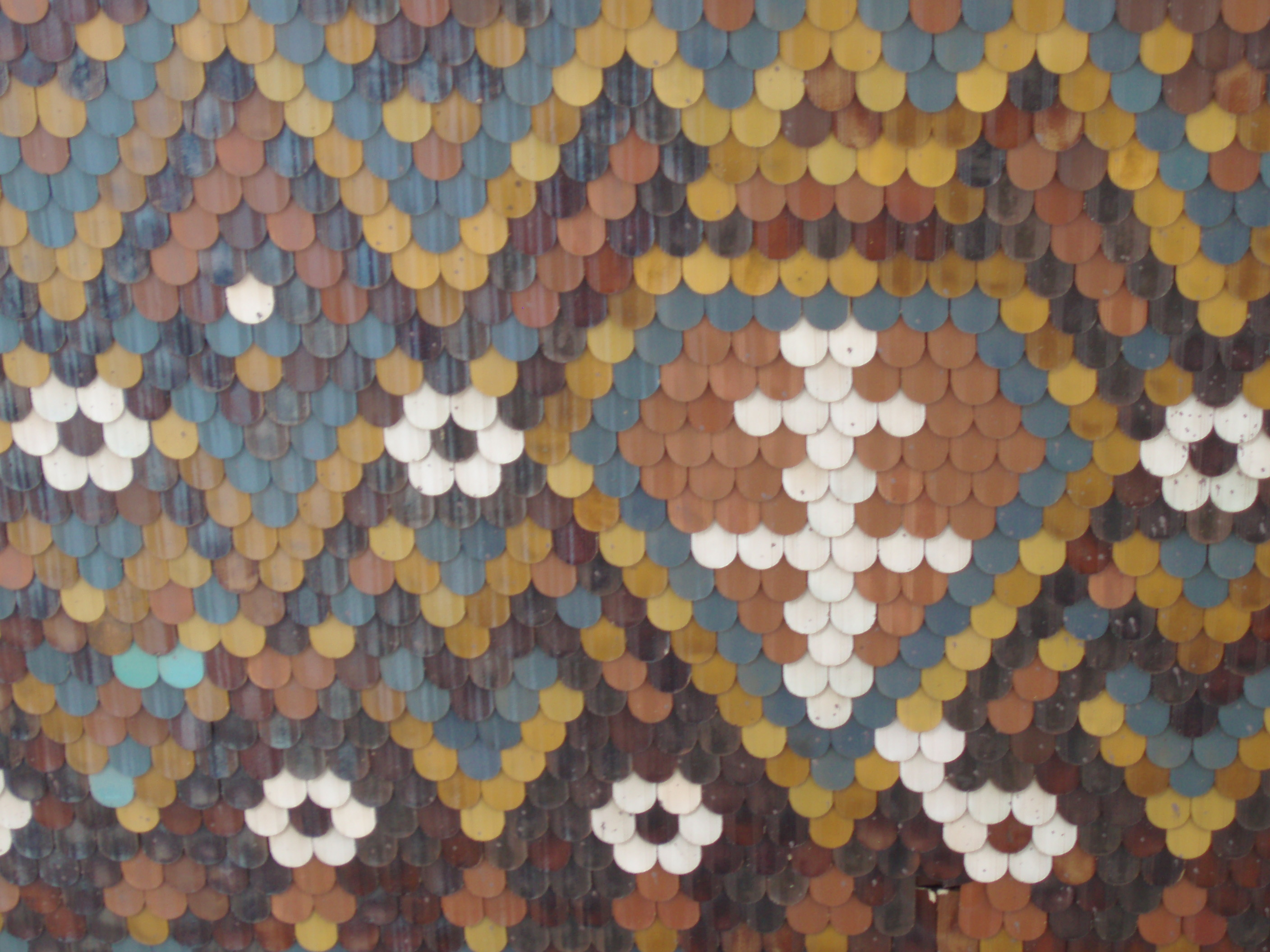 The roof of St.Elisabeth, Košice